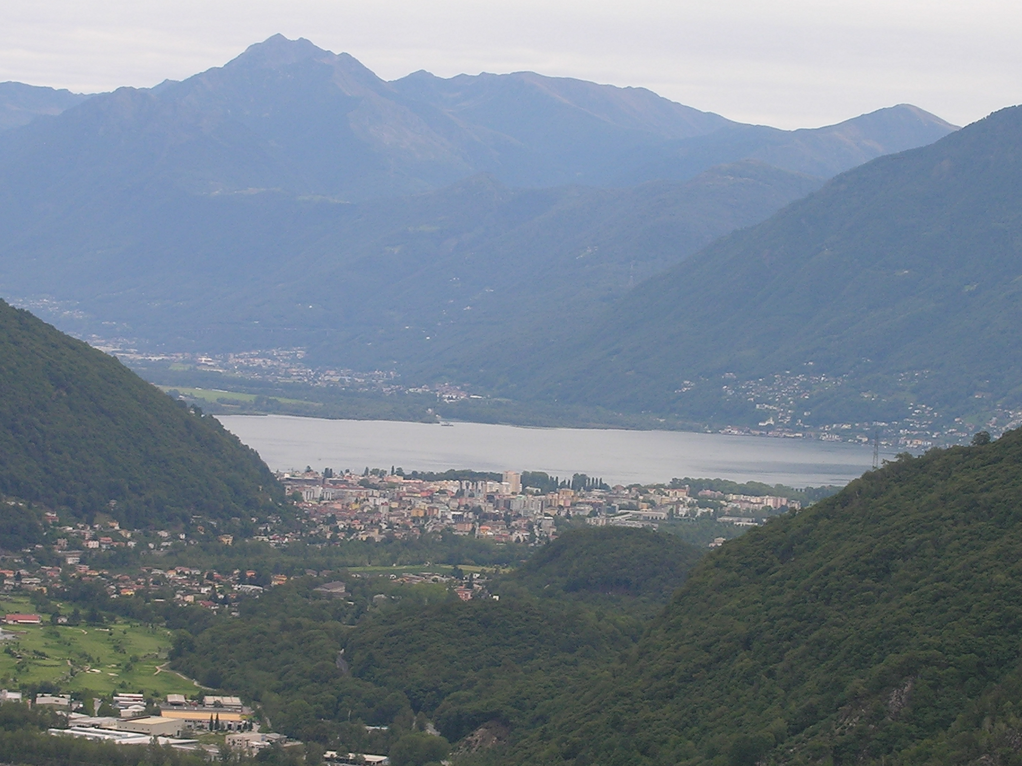 Locarno - view from the surrounding hills